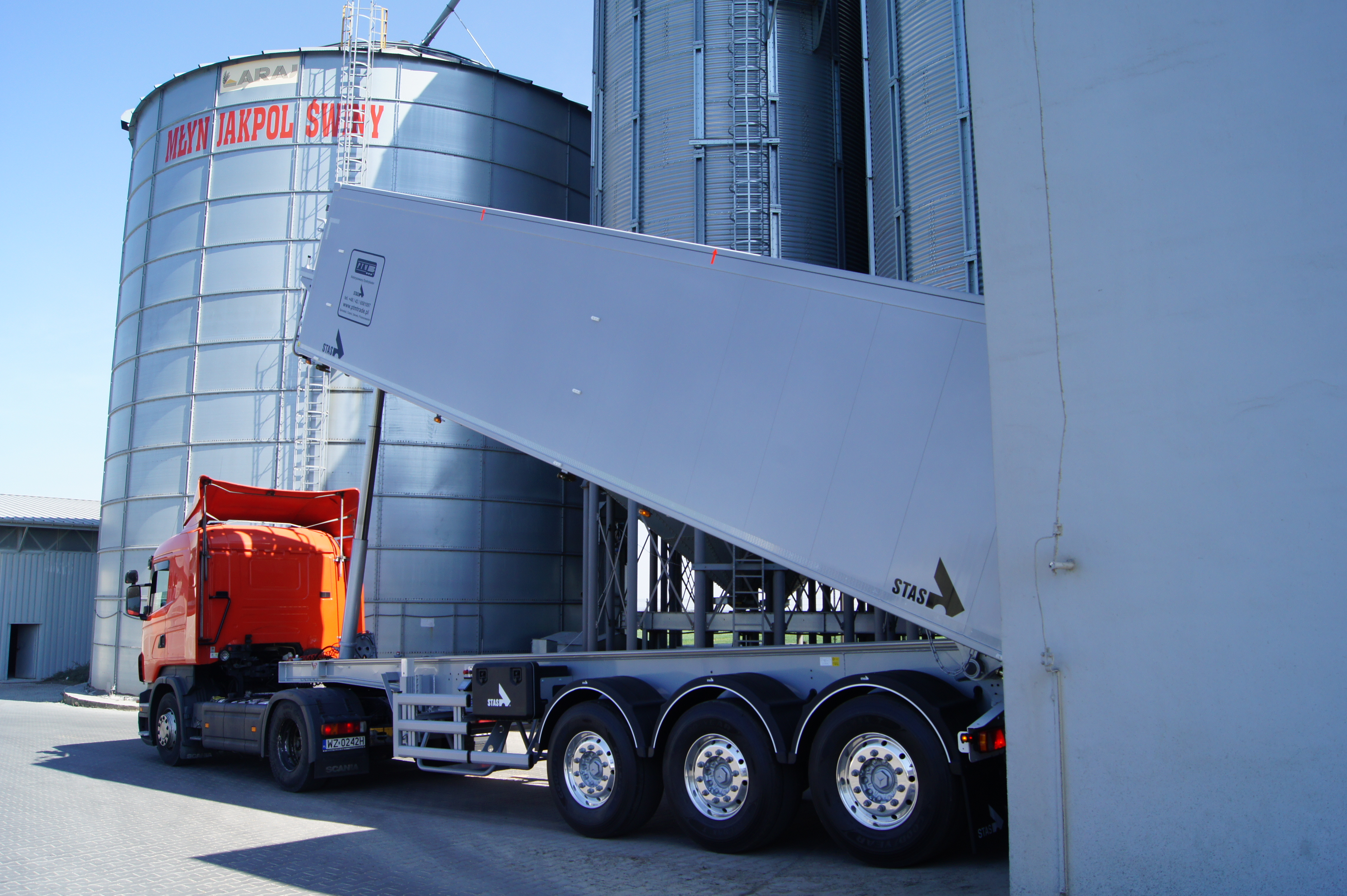 A tipper trailer from STAS